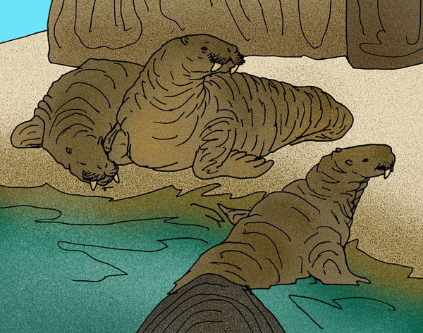 Crop of file in filename